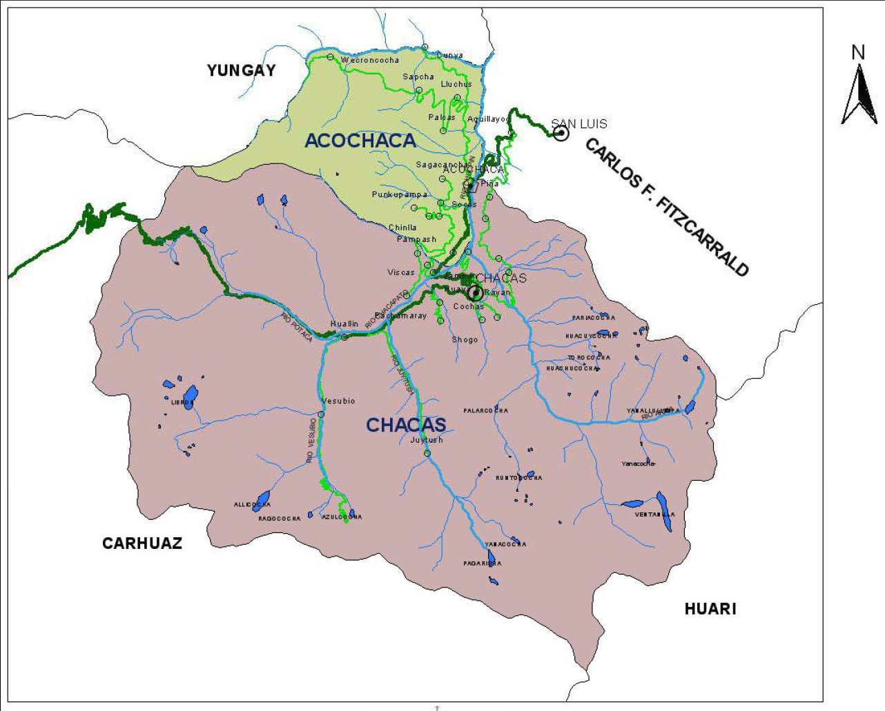 The province of Asunción (one of the smallest in land area of the Department) is for the 20 provinces of Ancash, this is located in the heart of the central highlands of the Department, on the eastern slopes of the Cordillera Blanca, in the Area of Conchucos, a distance of 121 km from the city of Huaraz (Capital of the department) and 521 km. In the city of Lima (capital of Peru) Chacas Its capital city is located about 3350 m, in the midst of extremely rugged terrain. Bordered on the north by the Province of Yungay, east to the provinces of Carlos Fermín Fitzcarrald and Huari, south and west by the Province of Carhuaz